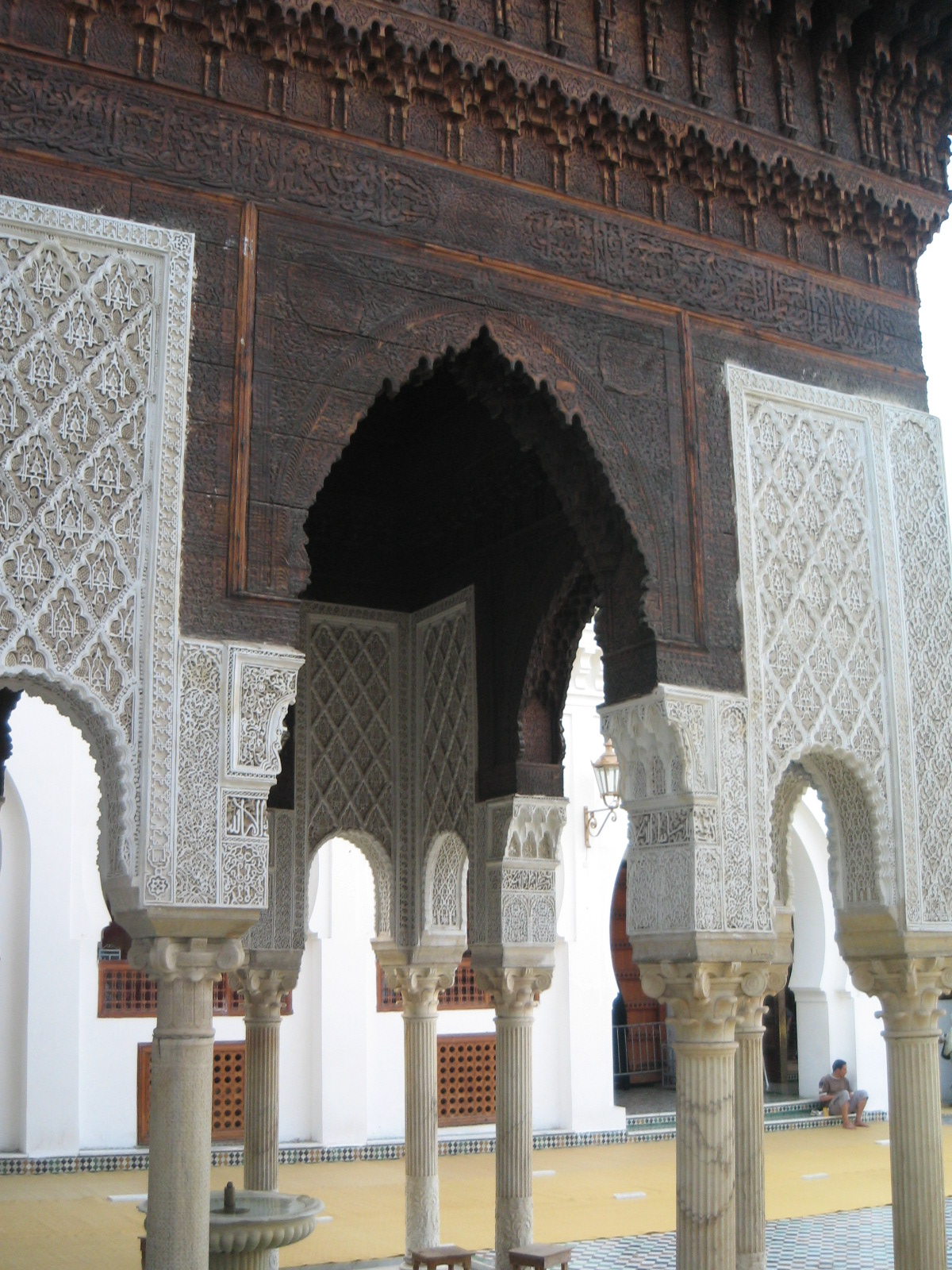 (Ablution corner) of the Al-Qarawiyyin University in Fes, Morocco.